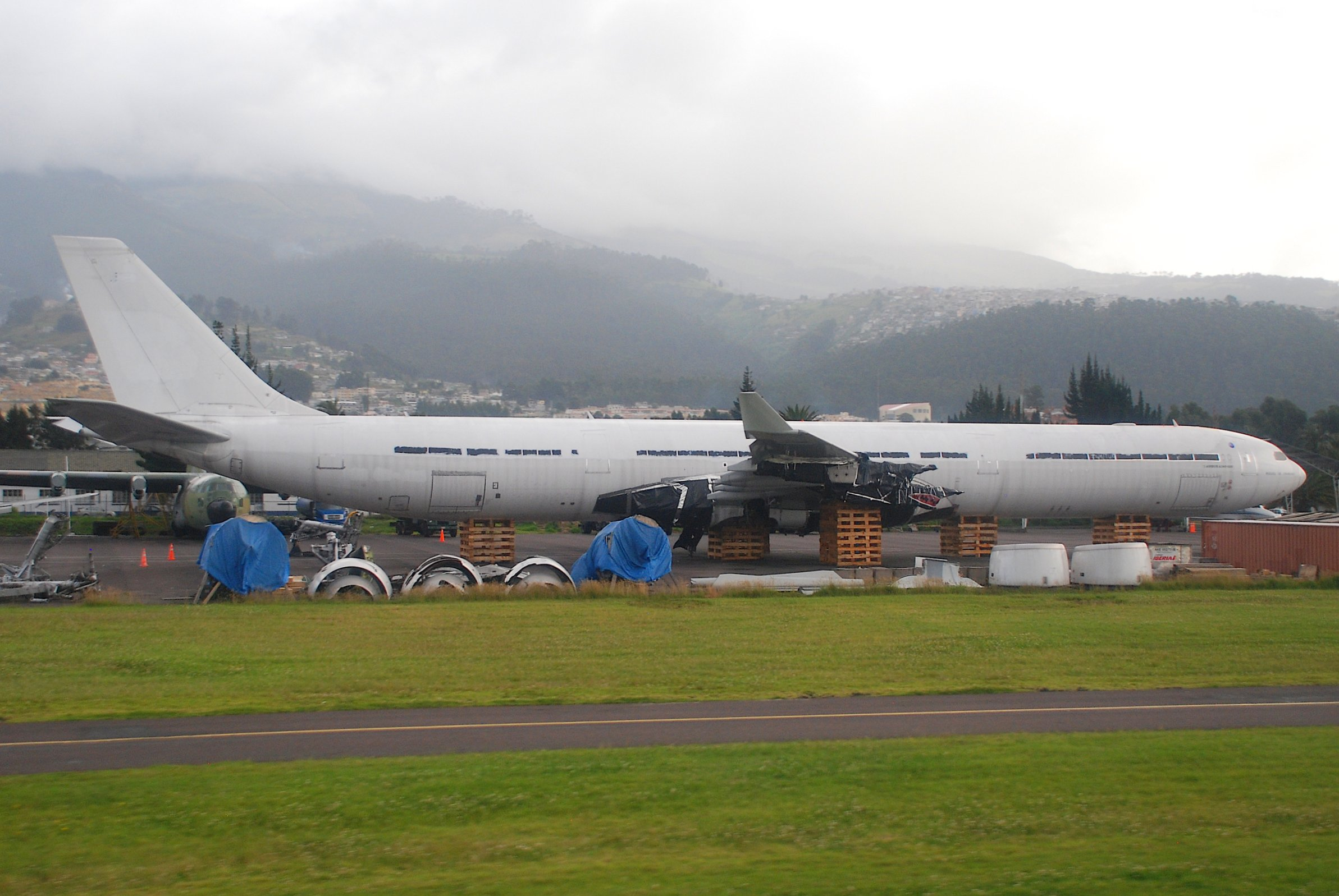 The Airbus was written off after it overshot the infamous runway at Quito (UIO). The incident happened on November 9, 2007. The picture shows the Airbus A340-600 in an early stage of being scrapped...